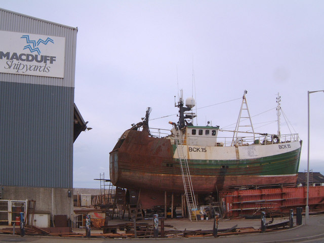 Macduff Shipyards, north Aberdeenshire coast